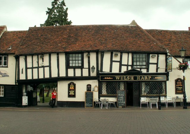 The 'Welsh Harp' inn, Market Square, Waltham Abbey This interesting inn dates back to the 15th century. The Lychgate passage, on the left side, leads to the abbey churchyard.